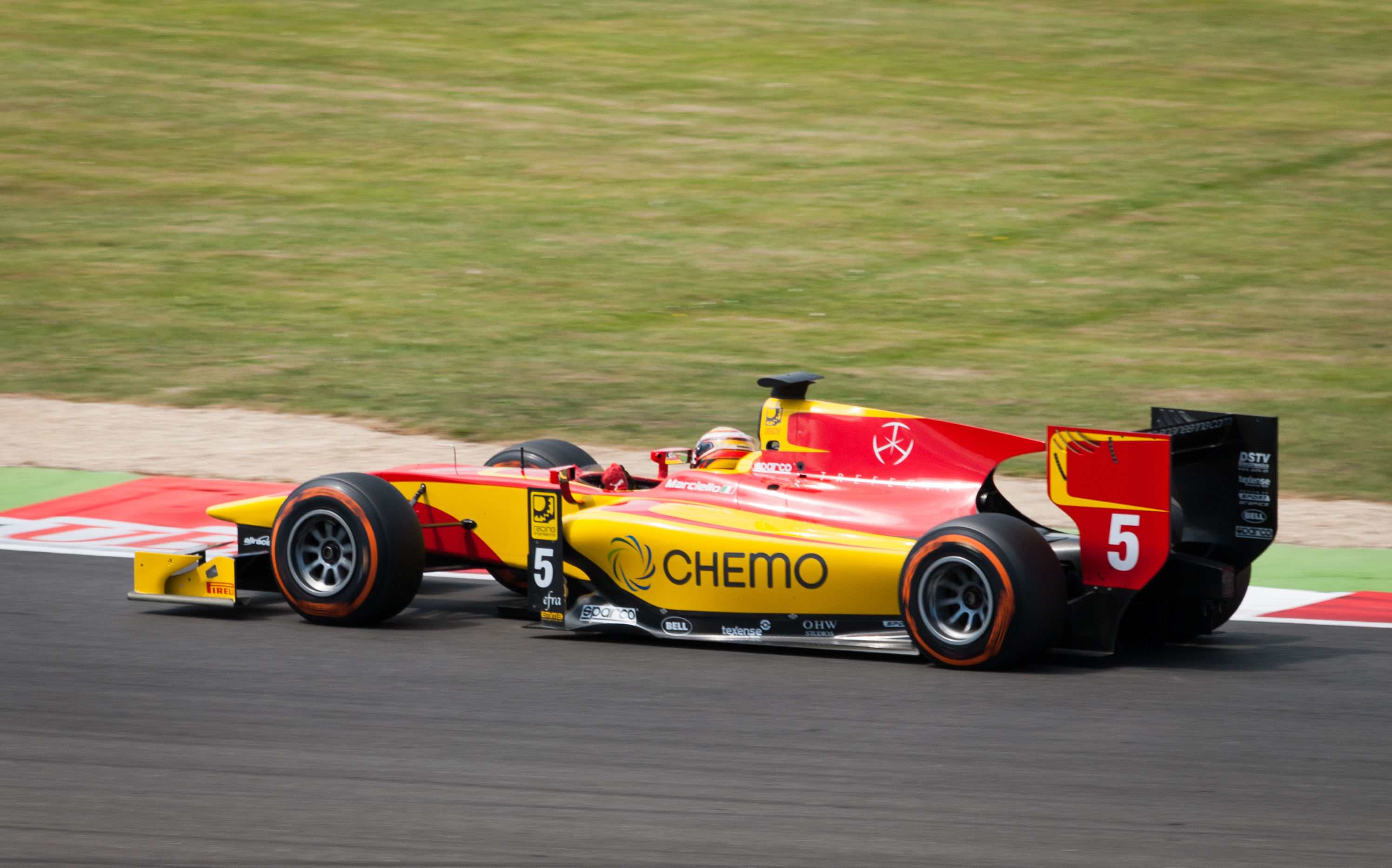 Raffaele Marciello driving for Racing Engineering at Silverstone. Round 5 of the 2014 GP2 Series Championship.